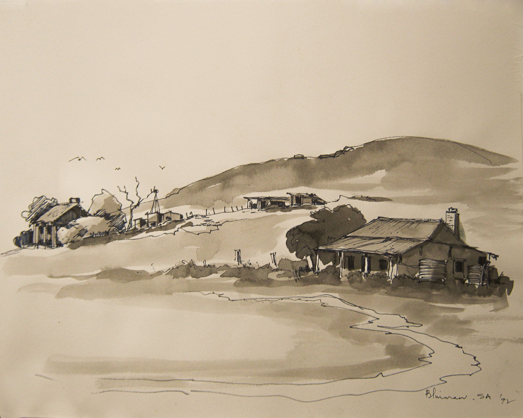 Ink and wash drawing of a farm landscape at Blinman South Australia by Ian Sprague 1992; photographed in a private collection at Elwood Victoria